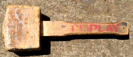 Wooden mallet, about 330 mm long, photographed by me. Securiger 11:07, 23 Feb 2005 (UTC)